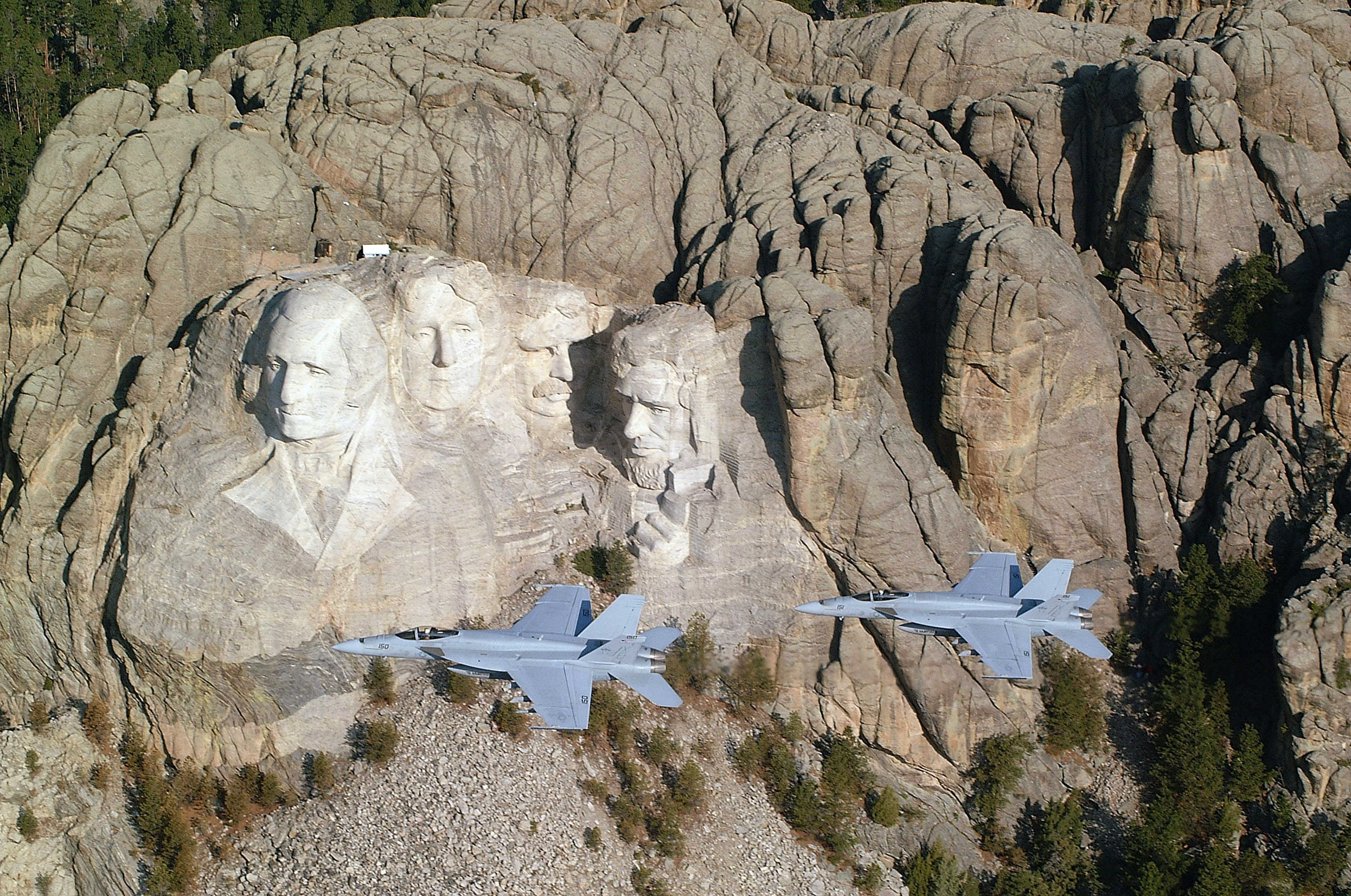 060511-N-6349D-002 Mount Rushmore (May 11, 2006) - Two F/A-18E Super Hornets conduct a fly by of Mount Rushmore during a recent training exercise. U.S. Navy photo by Lt. Anthony Dobson (RELEASED)